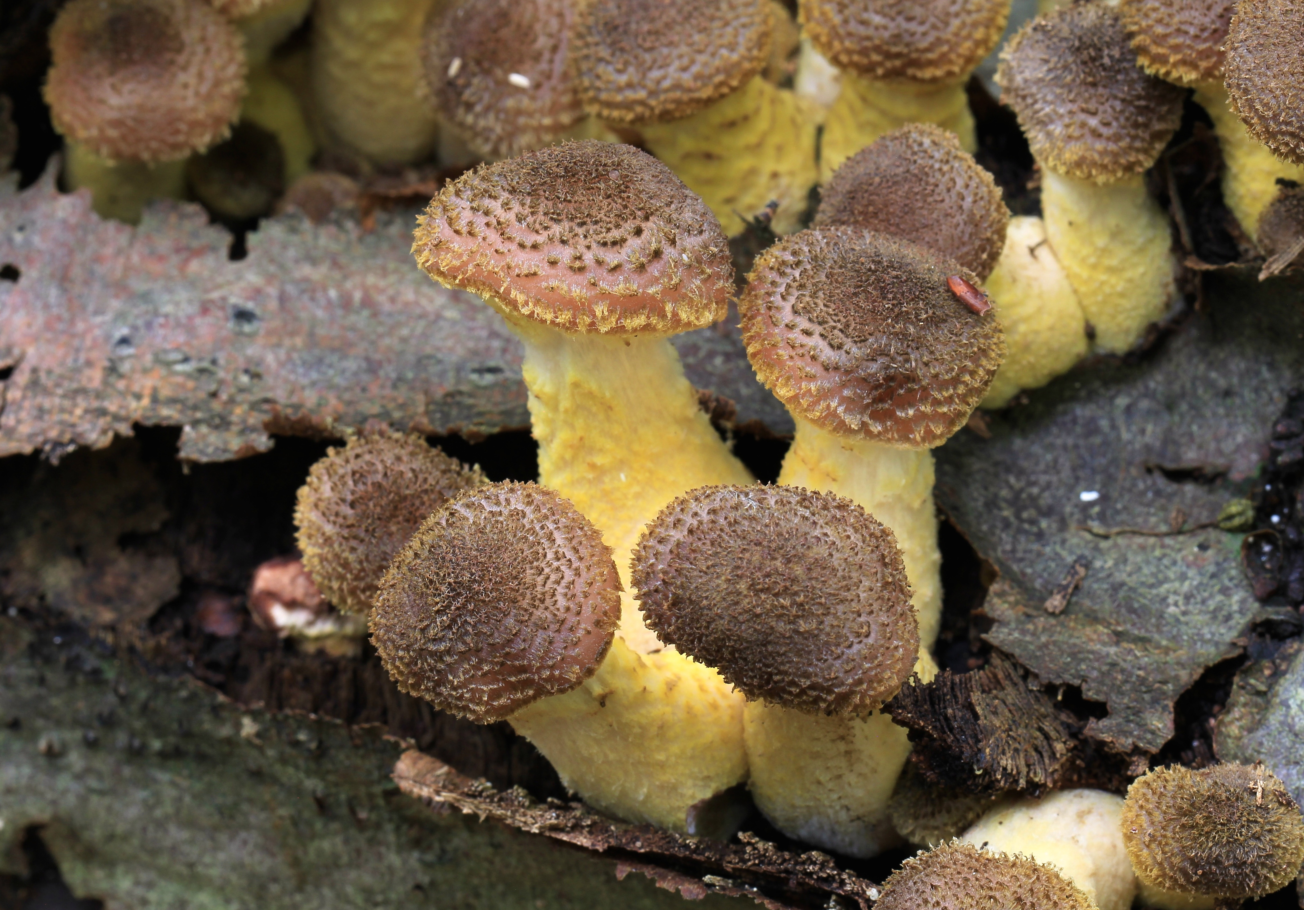 Armillaria cepistipes, taken in the London Borough of Enfield, UK.